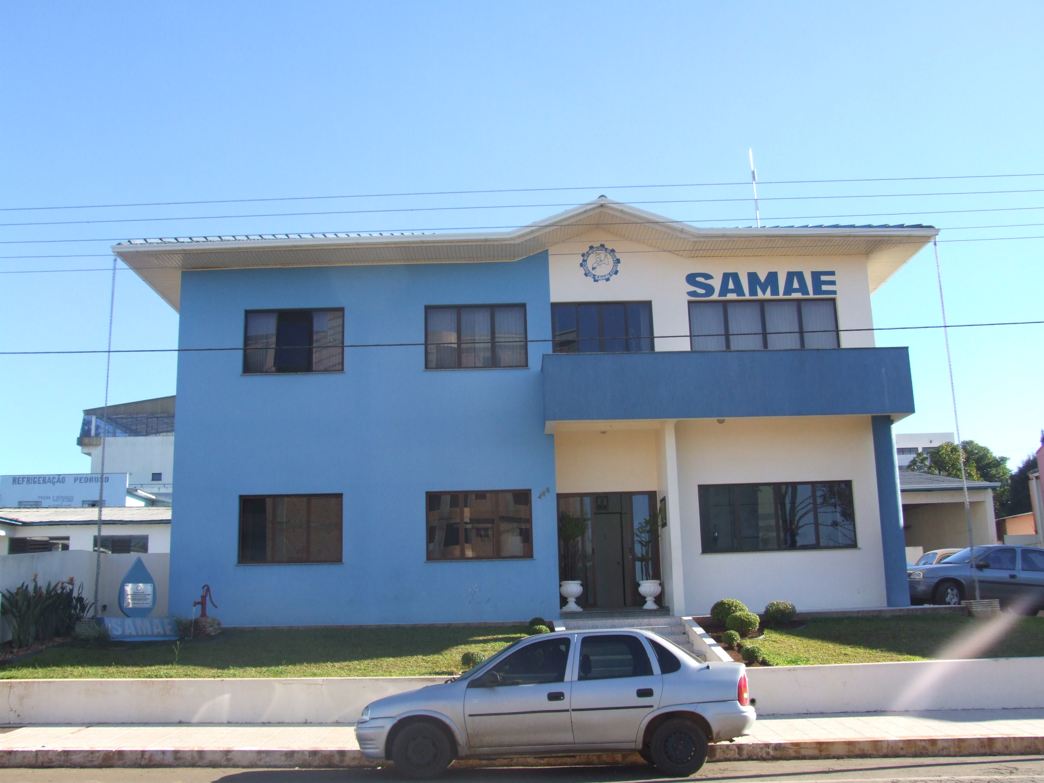 Autonomous Service of Municipal Water and Sewer of Campos Novos, State of Santa Catarina, Brasil